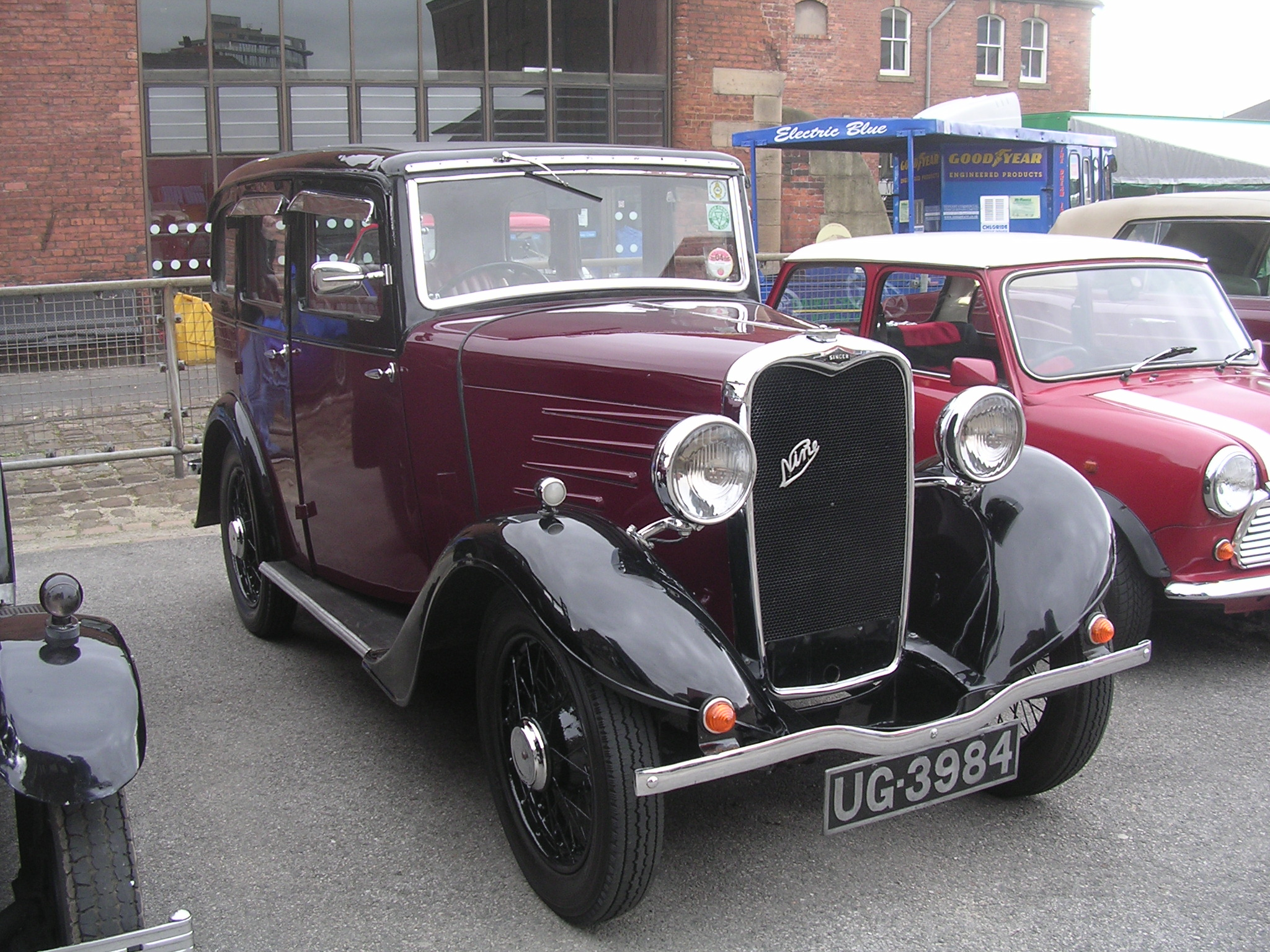 Singer Nine (DVLA) 972 cc manufactured 1933 This photo was taken on August 4, 2007 using a Nikon E3100.